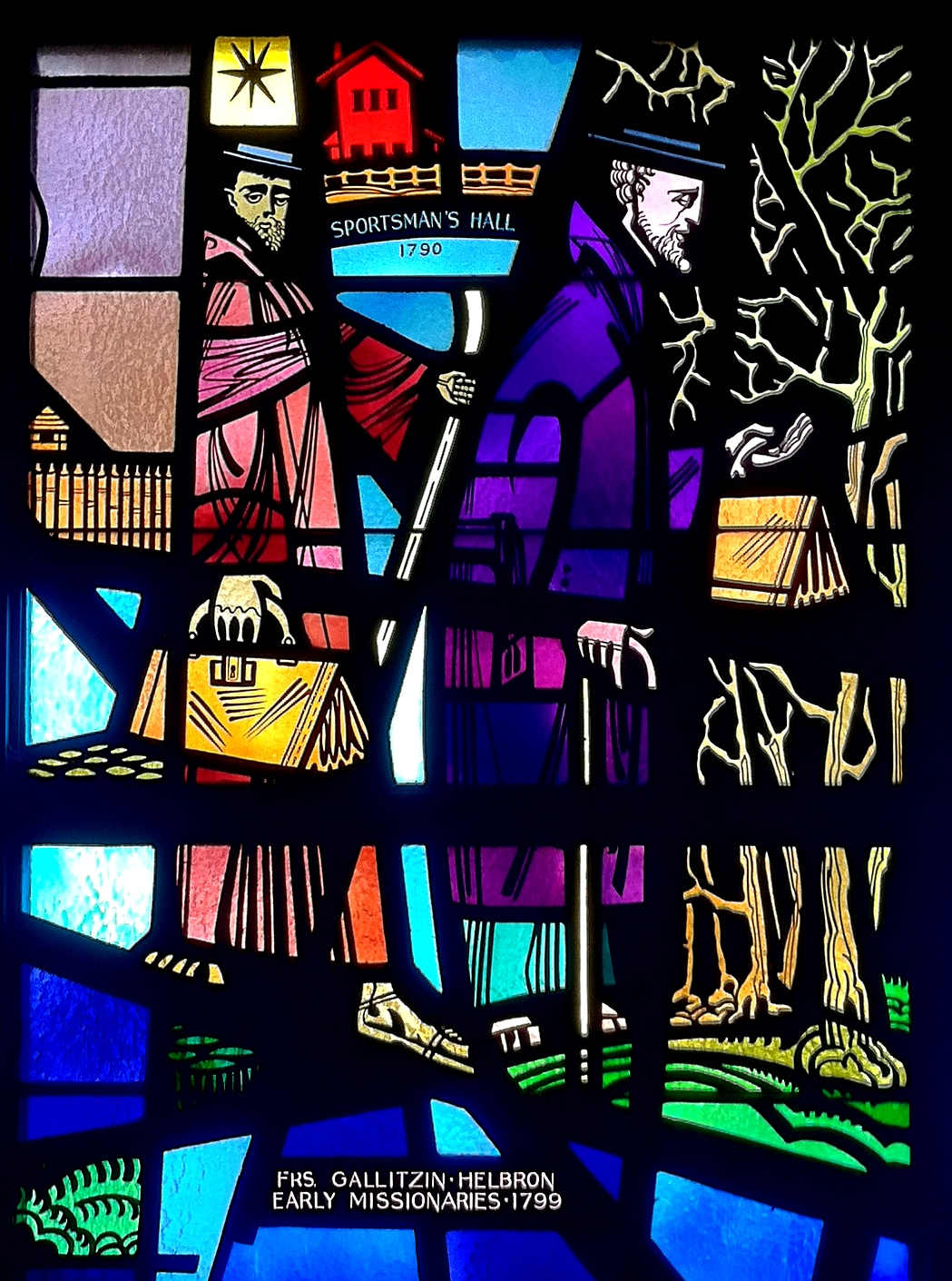 This is a stained glass depiction of Fathers Demetrius Gallitzin and Father Peter Helbron, early Catholic missionaries in Western Pennsylvania. The window is located in Saint Patrick's Roman Catholic Church in Canonsburg, Pennsylvania.